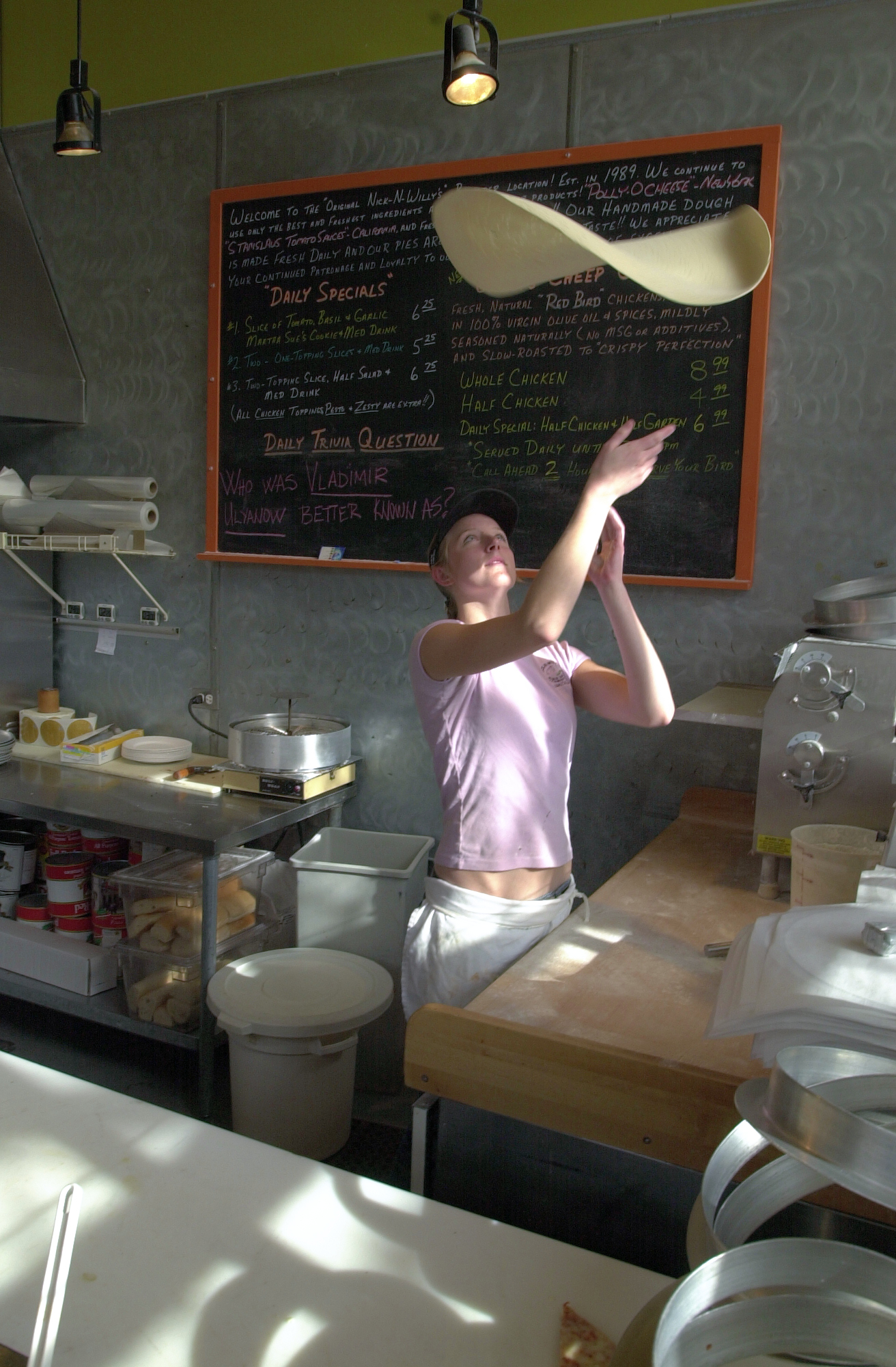 Kenzie Wolf, then a sophomore at the University of Colorado at Boulder, hand tossing a "Big Boy" pizza at Nick-N-Willy's, a take and bake pizzeria, in Boulder, Colorado, USA. At the time of the photo, she had been making pizzas for over three years.